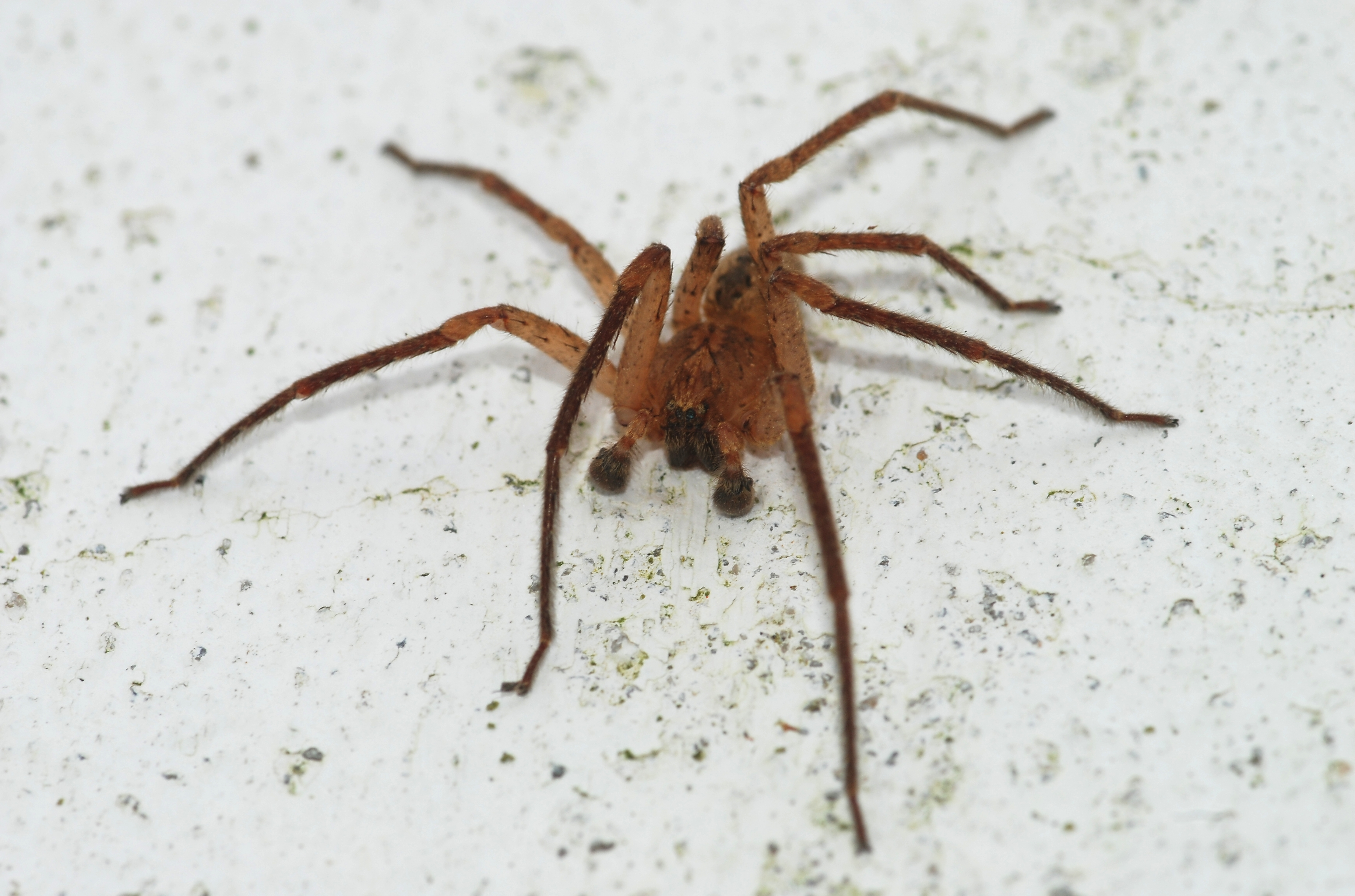 A male spider of the Zoropsidae family (Zoropsis cf. spinimana)